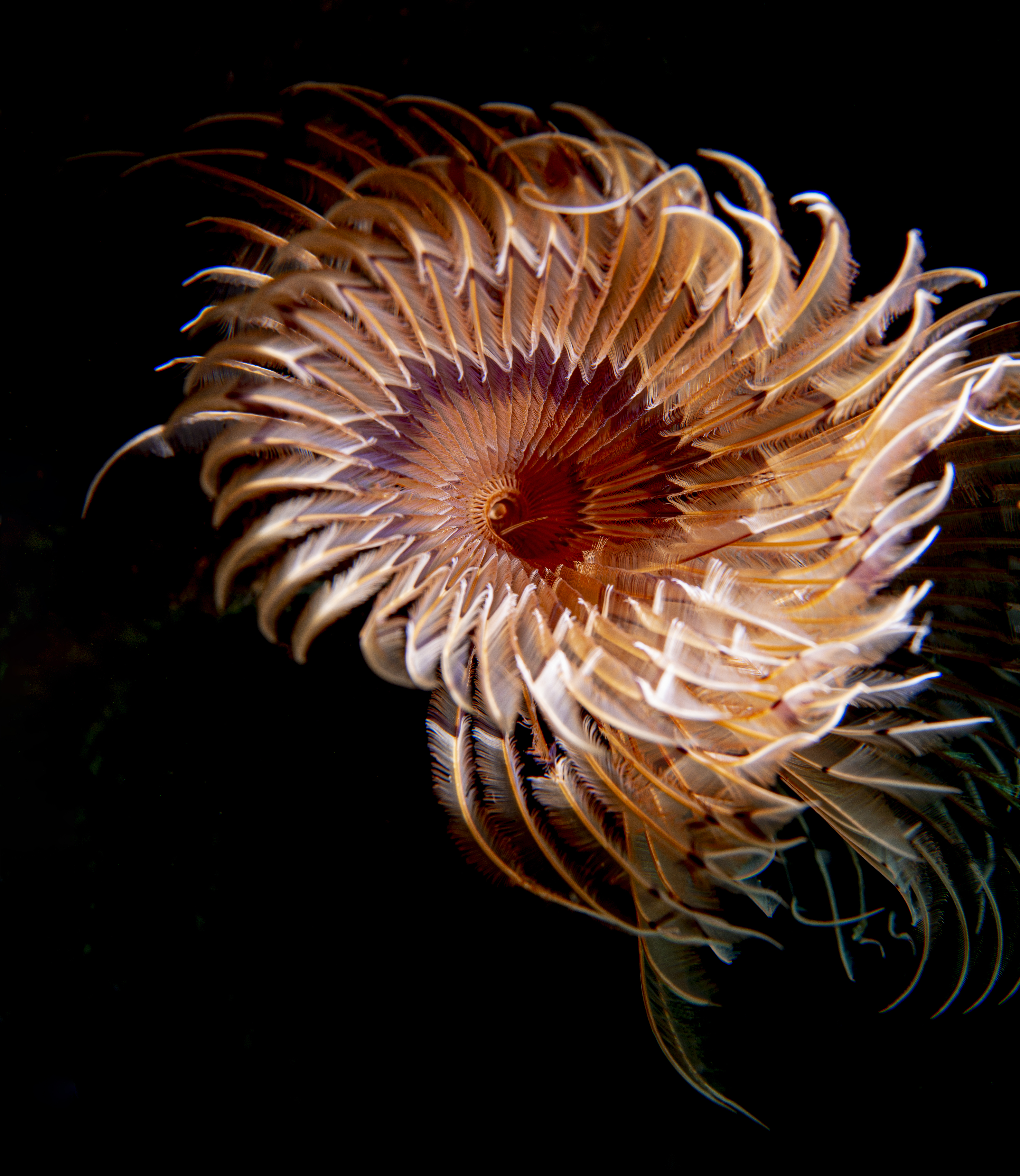 Fan worm (Bispira volutacornis) in Porto Cesareo Marine Nature Reserve (Q3622036). Photo from diving in the water between Torre Lapillo and Torre Chianca, near the Cathedral.